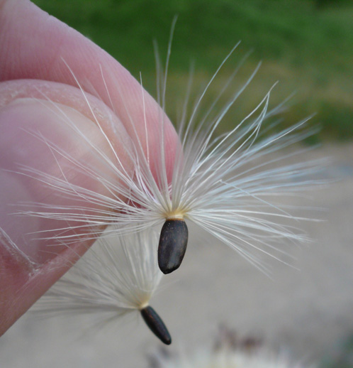 Fruits of Sibylum marianum at river Besòs in Sant Fost de Campsentelles (Vallès Oriental, Catalonia).